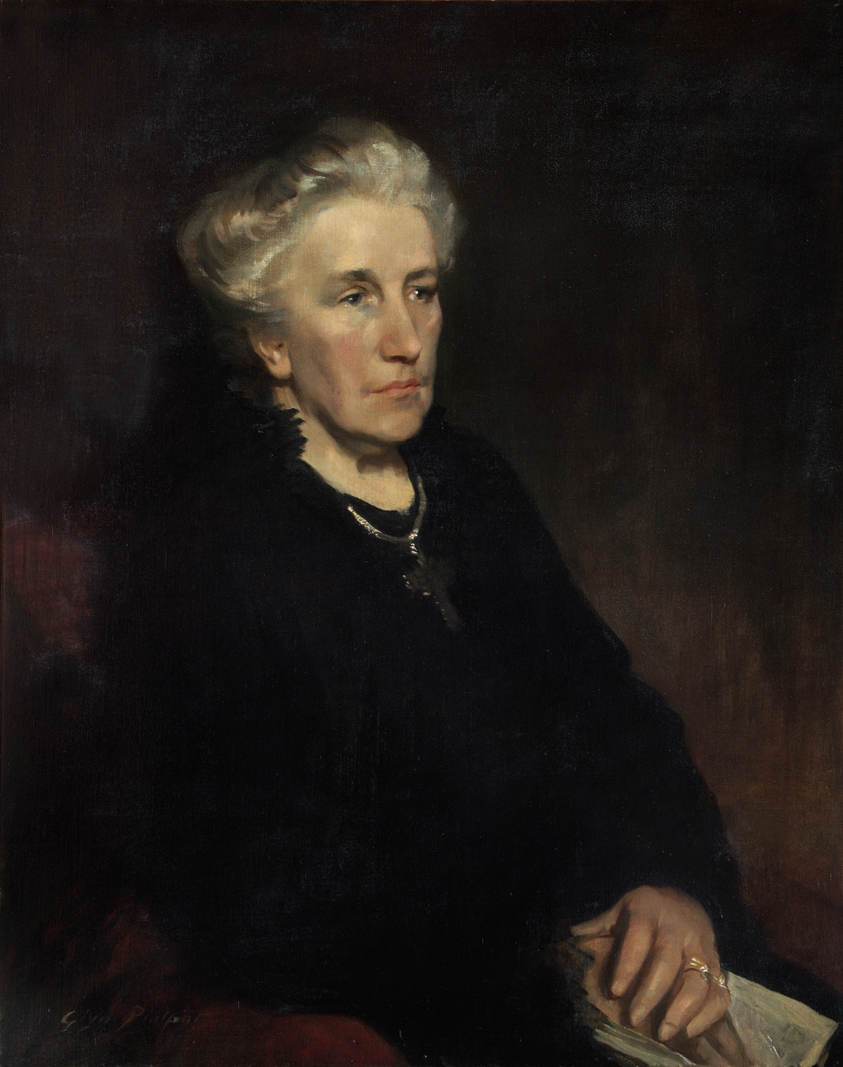 Philpot, Glyn Warren; Louise Creighton, Wife of Mandell Creighton, Bishop of London; Lambeth Palace